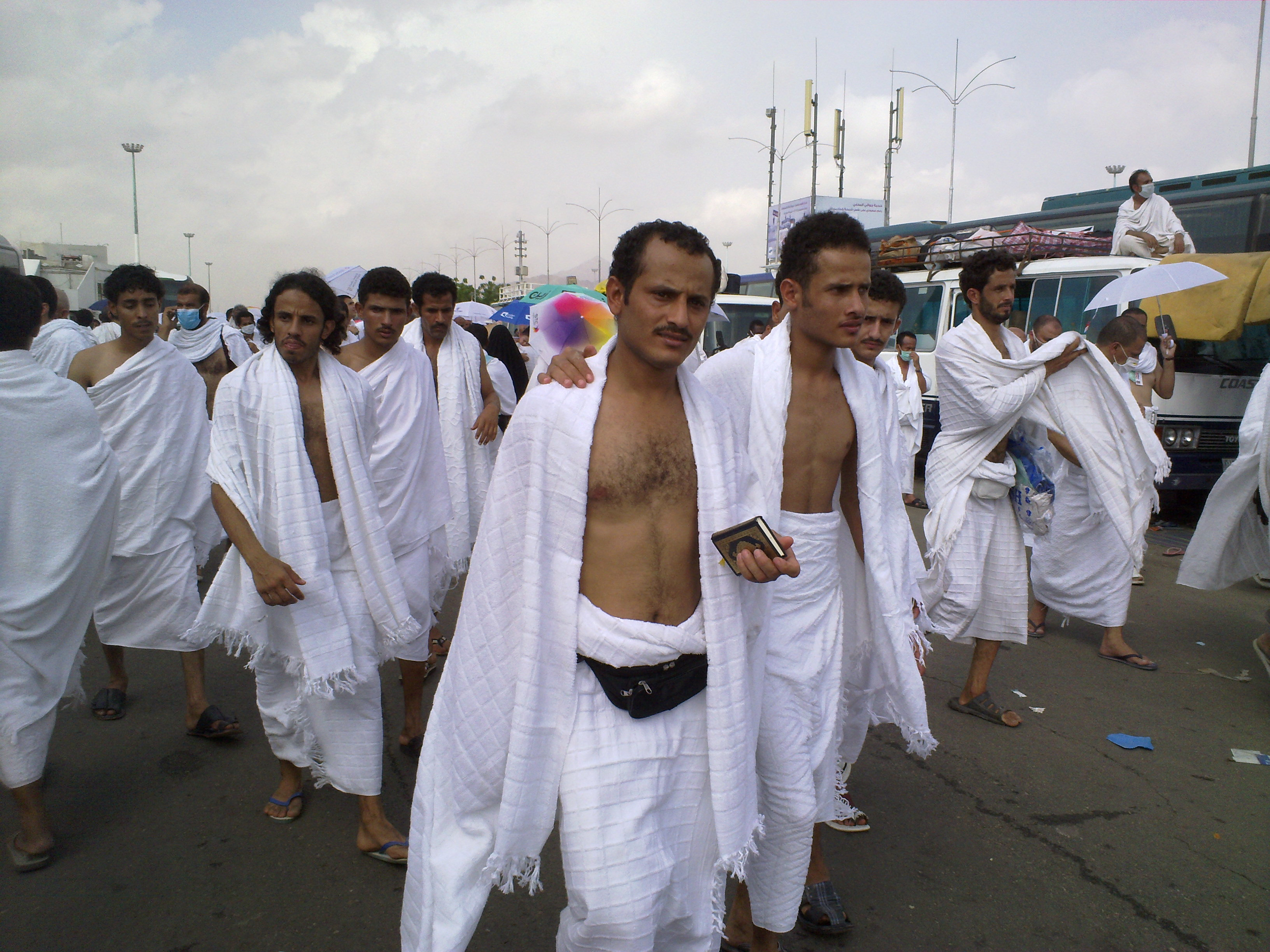 Photo by Omar Chatriwala